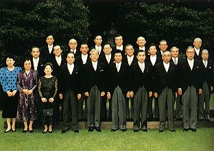 Morihiro Hosokawa, Prime Minister, formed the Cabinet on August 9, 1993. Hosokawa posed for the photo with Akira Mikazuki, Tsutomu Hata, Hirohisa Fujii, Ryōko Akamatsu, Keigo Ōuchi, Eijirō Hata, Hiroshi Kumagai, Shigeru Itō, Takenori Kanzaki, Chikara Sakaguchi, Kōzō Igarashi, Kanju Satō, Masayoshi Takemura, Kōshirō Ishida, Kōsuke Uehara, Keisuke Nakanishi, Sanae Kubota, Satsuki Eda, Wakako Hironaka, Sadao Yamahana, Ministers of State, Takao Ōde, Director-General of the Cabinet Legislation Bureau, Yukio Hatoyama and Nobuo Ishihara, Deputy Chief Cabinet Secretaries, at the Prime Minister's Official Residence in Chiyoda Ward, Tōkyō Metropolis. (For terms of use, see リンク、著作権等について | 首相官邸ホームページ.)